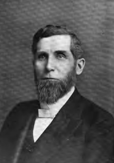 Photograph of Silas C Swallow (1839-1930), Methodist preacher and prohibitionist politician